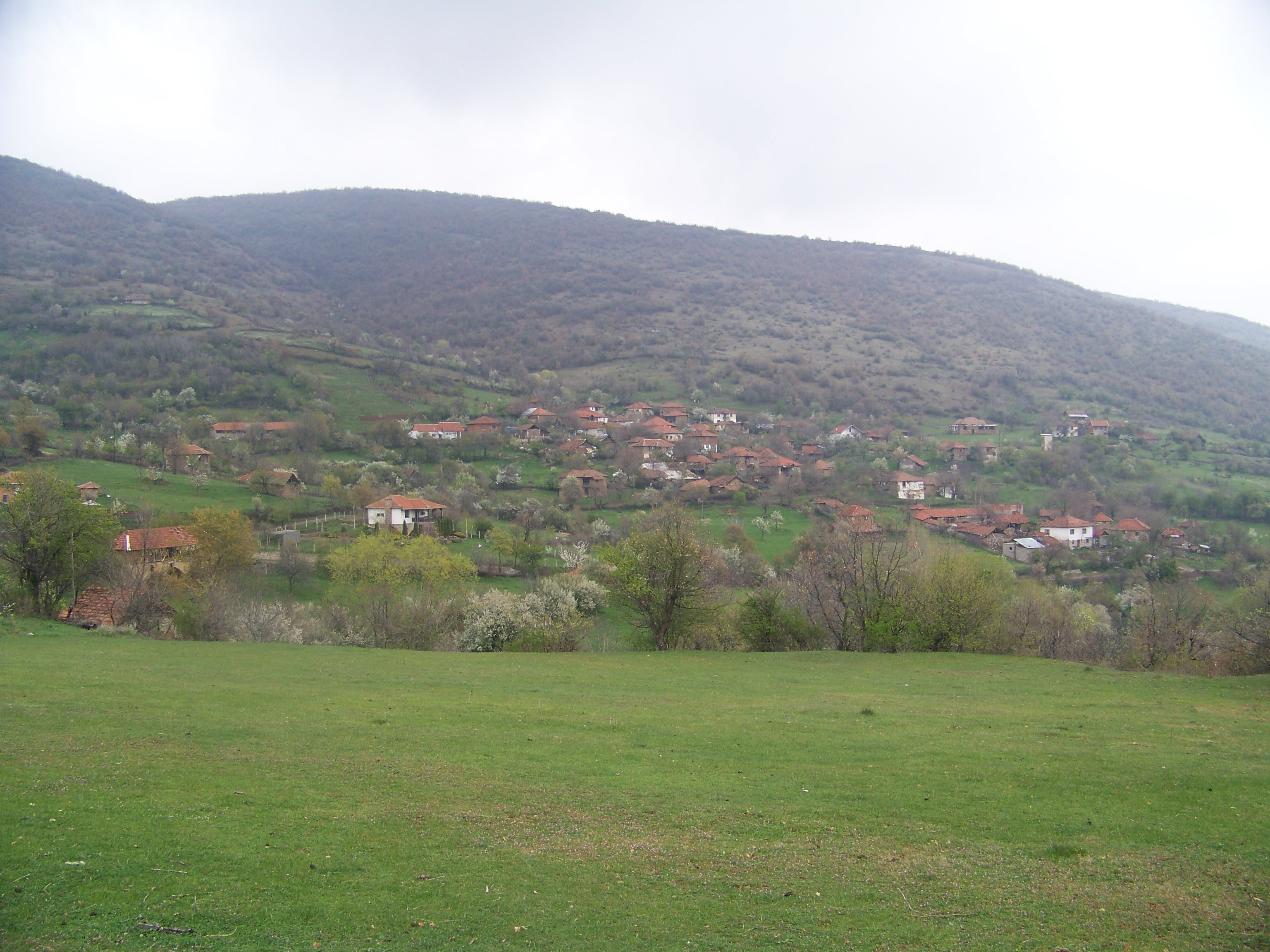 Village of Panteley, Kocani, Republic of Macedonia